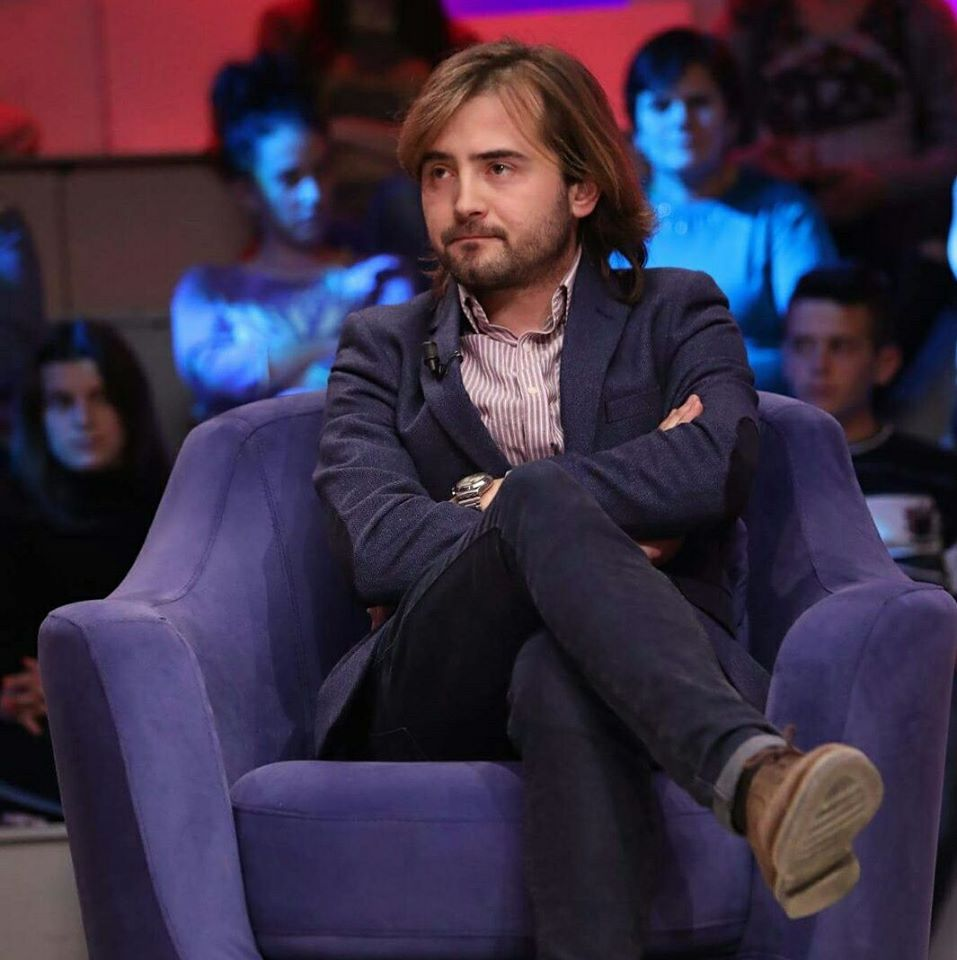 Genti Decka